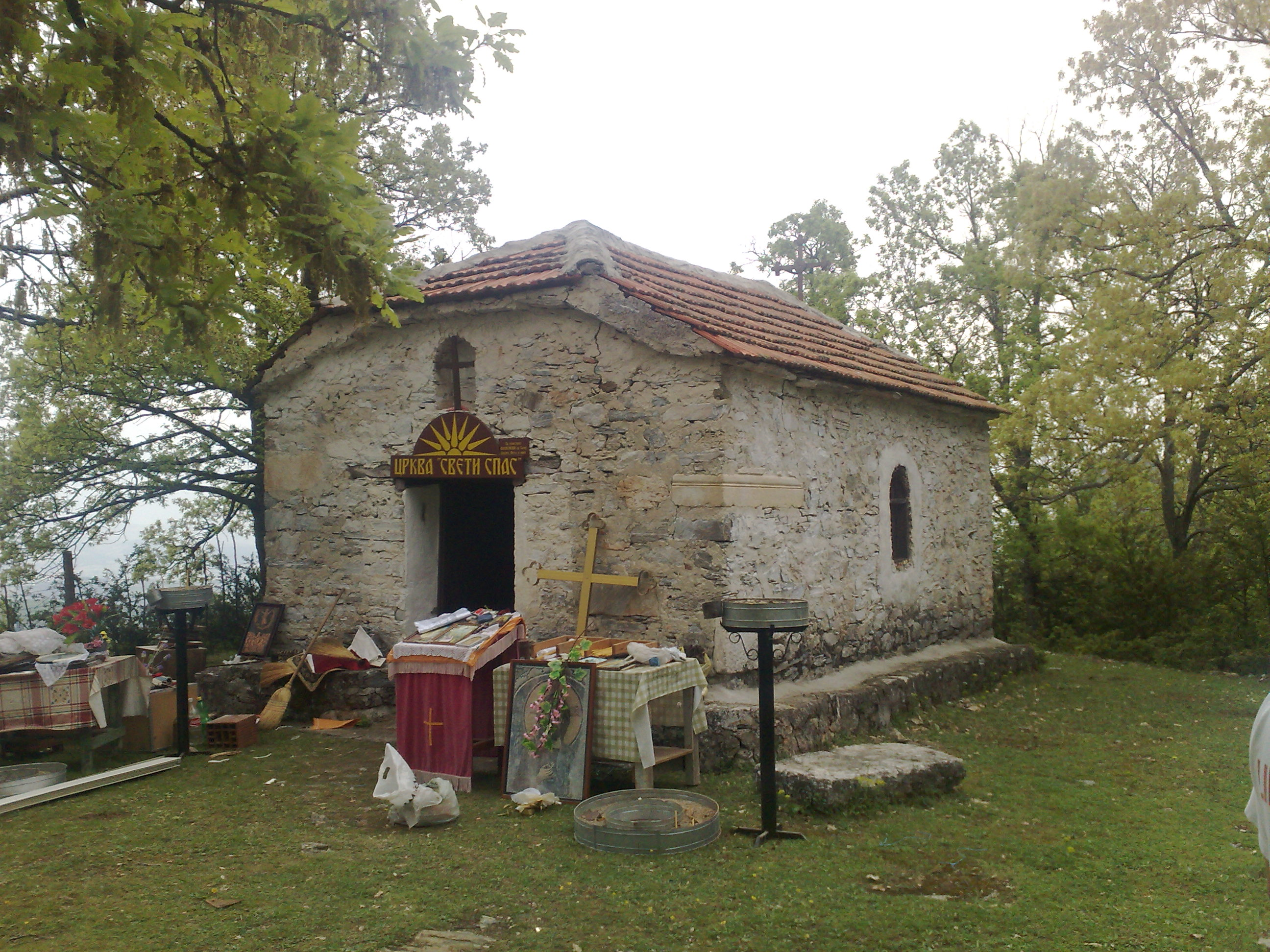 Church of Holly Saviour, Matka Canyon, Macedonia